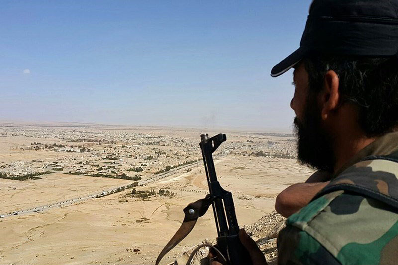 Liberation of Palmyra by Russia–Syria–Iran–Iraq coalition.